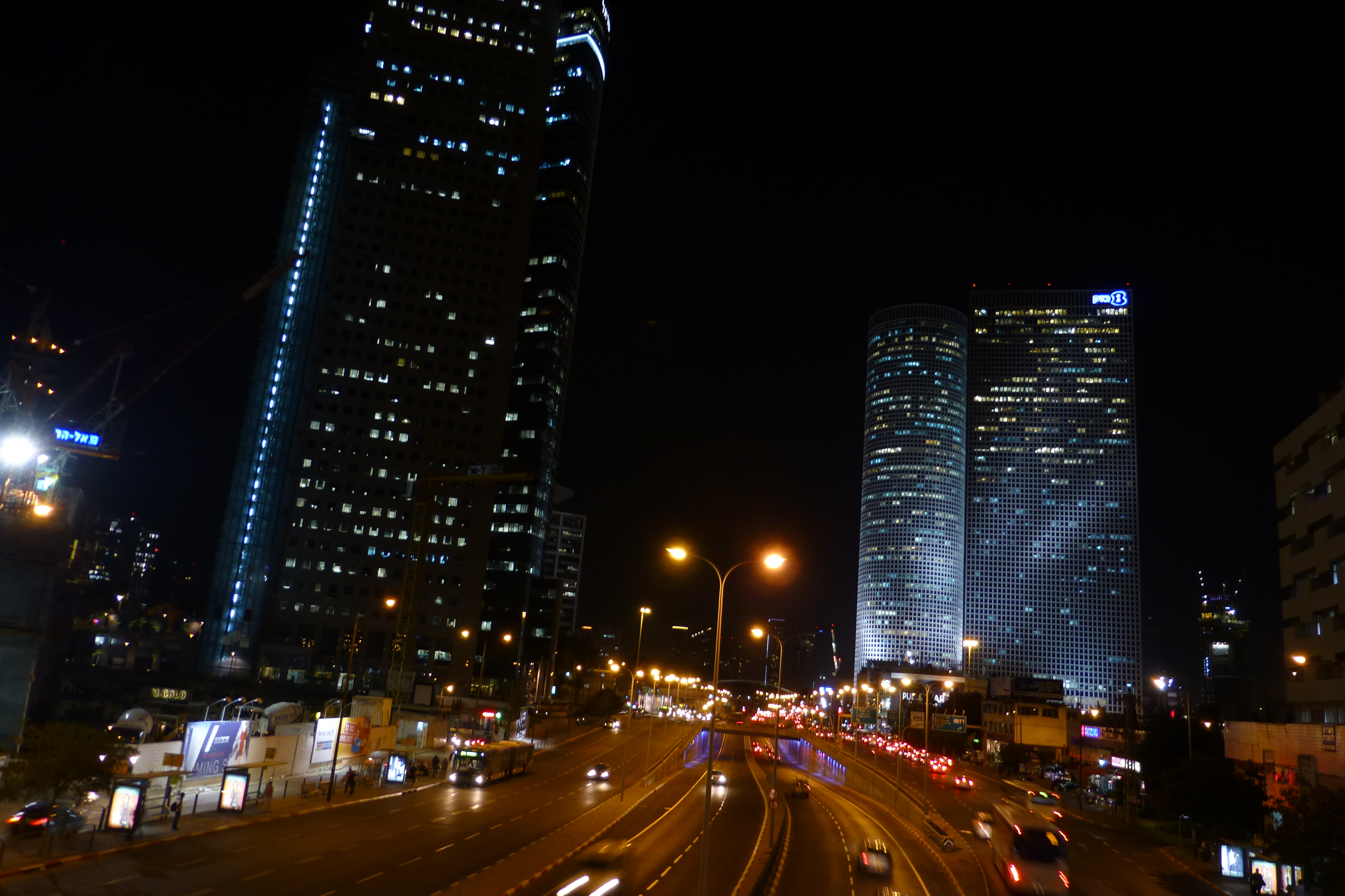 A2 (Israel)